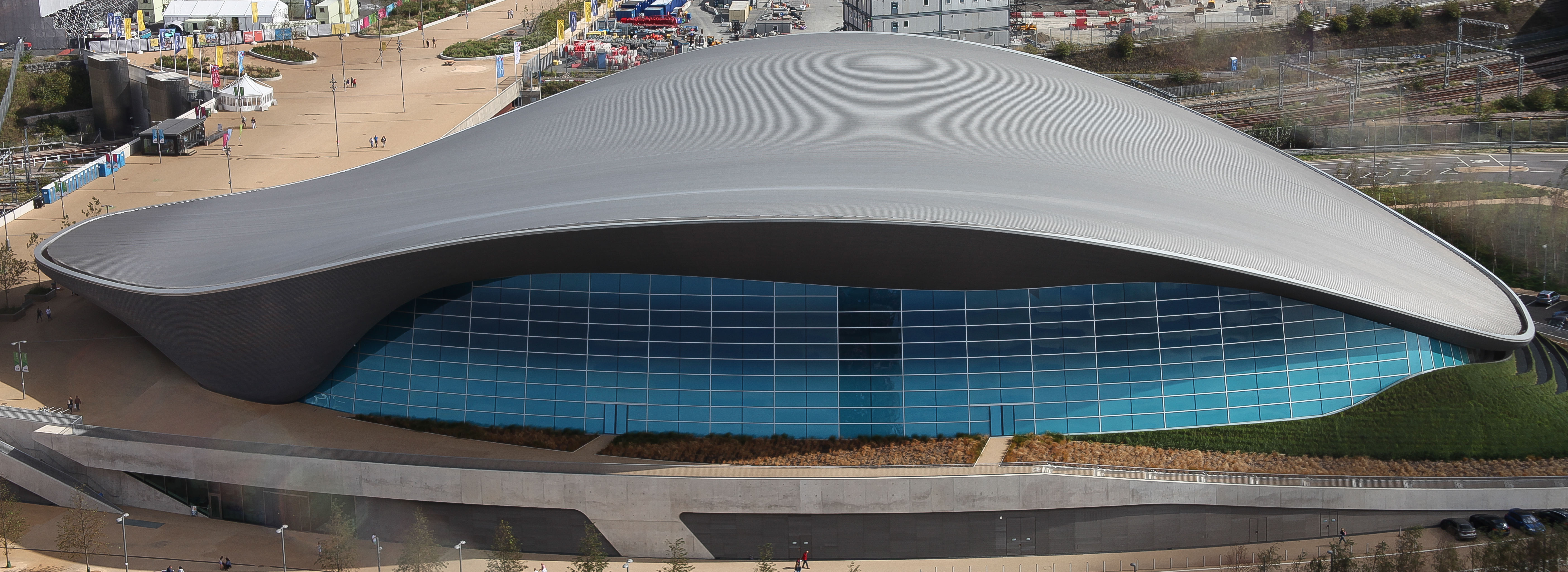 The Aquatic Centre in the Queen Elisabeth II Olympic Park in Stratford, designed by Zaha Hadid, used for the 2012 Olympics